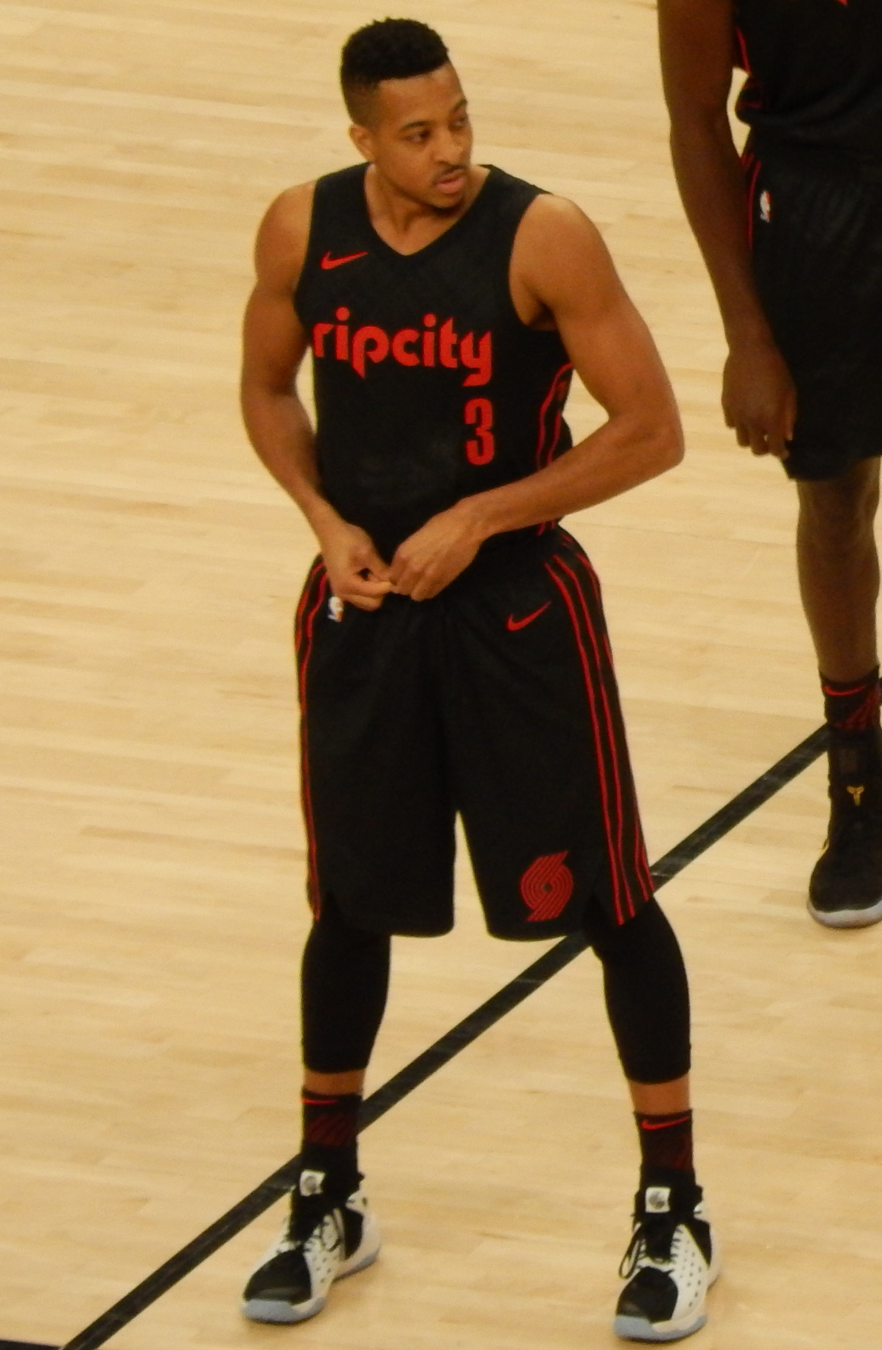 C.J. McCollum #3 of the Portland Trail Blazers against the Sacramento Kings on February 27, 2018 at Moda Center in Portland, Oregon.